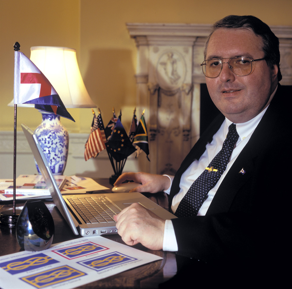 Official photograph of Graham Bartram, the Secretary-General for Congresses of FIAV taken at the Flag Institute HQ, The Naval Club, Mayfair, London.